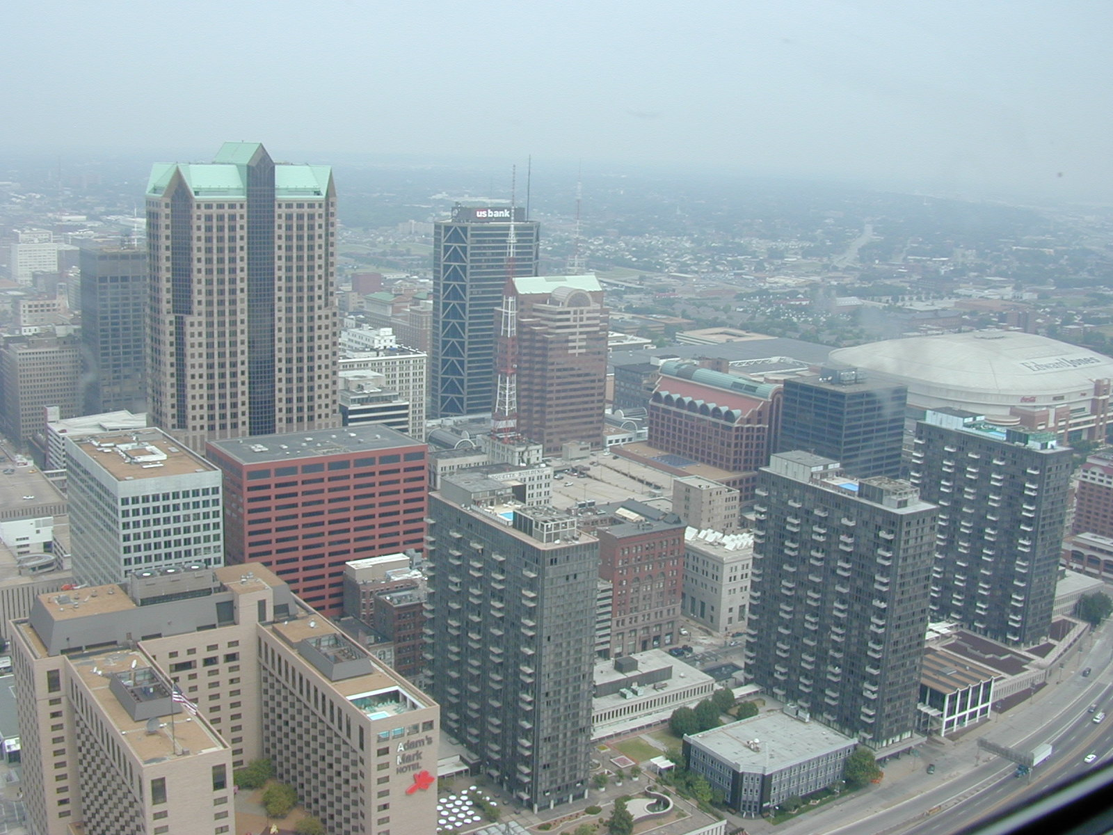 St. Louis: View from Gateway Arch Jan Kronsell, July 2004